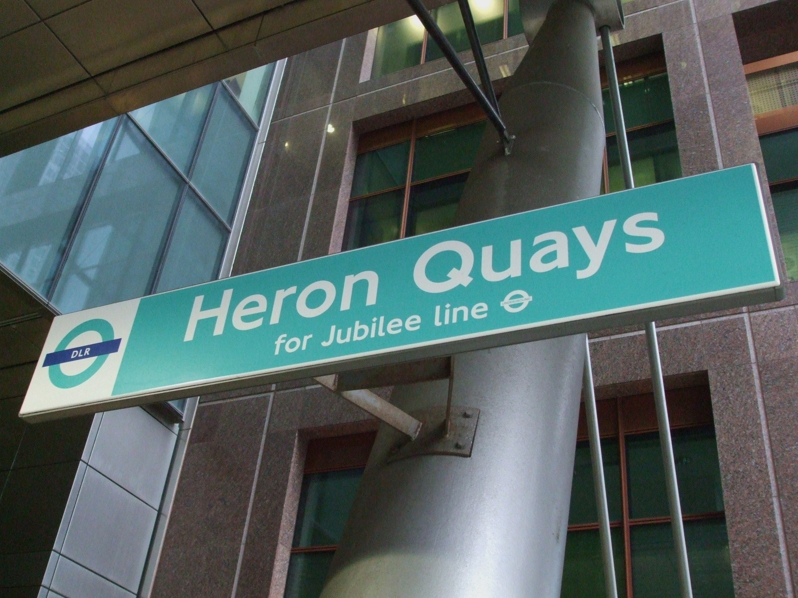 Heron Quays DLR station platform signage. Canary Wharf station is some distance from its namesake station on the Jubilee line, and Heron Quays is "officially" closer.